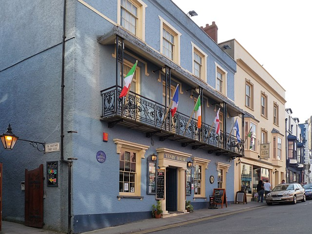 Tenby House Hotel, Tudor Square. To see the blue plaque 1225017.